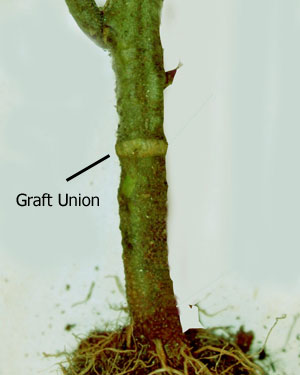 Grafted tomato plants should be planted so that the union is well above the soil line in order to reduce contact between the scion and potential plant pathogens